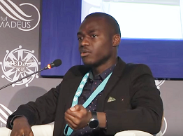 Mubarak Muyika speaking at MEDays Forum 2015 in Tangier, Morocco